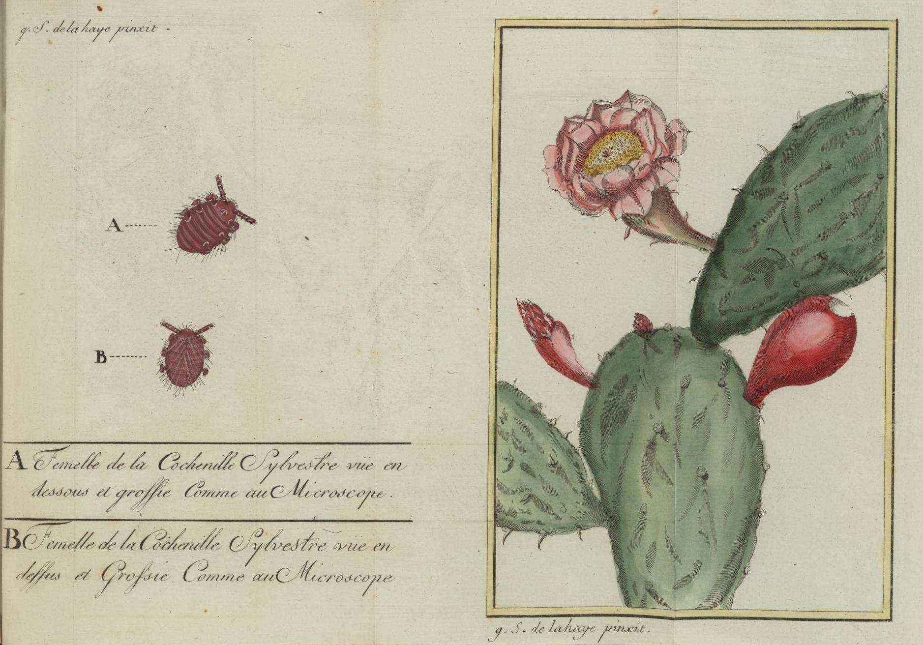 Hand colored engraving of cochineal and nopal by G.S. de la Haye in Nicolas-Joseph Thiéry de Menonville's Traité de la culture du nopal, et de l'éducation de la cochenille dans les colonies françaises de l'Amérique; précédé d'un Voyage a Guaxaca (1787)